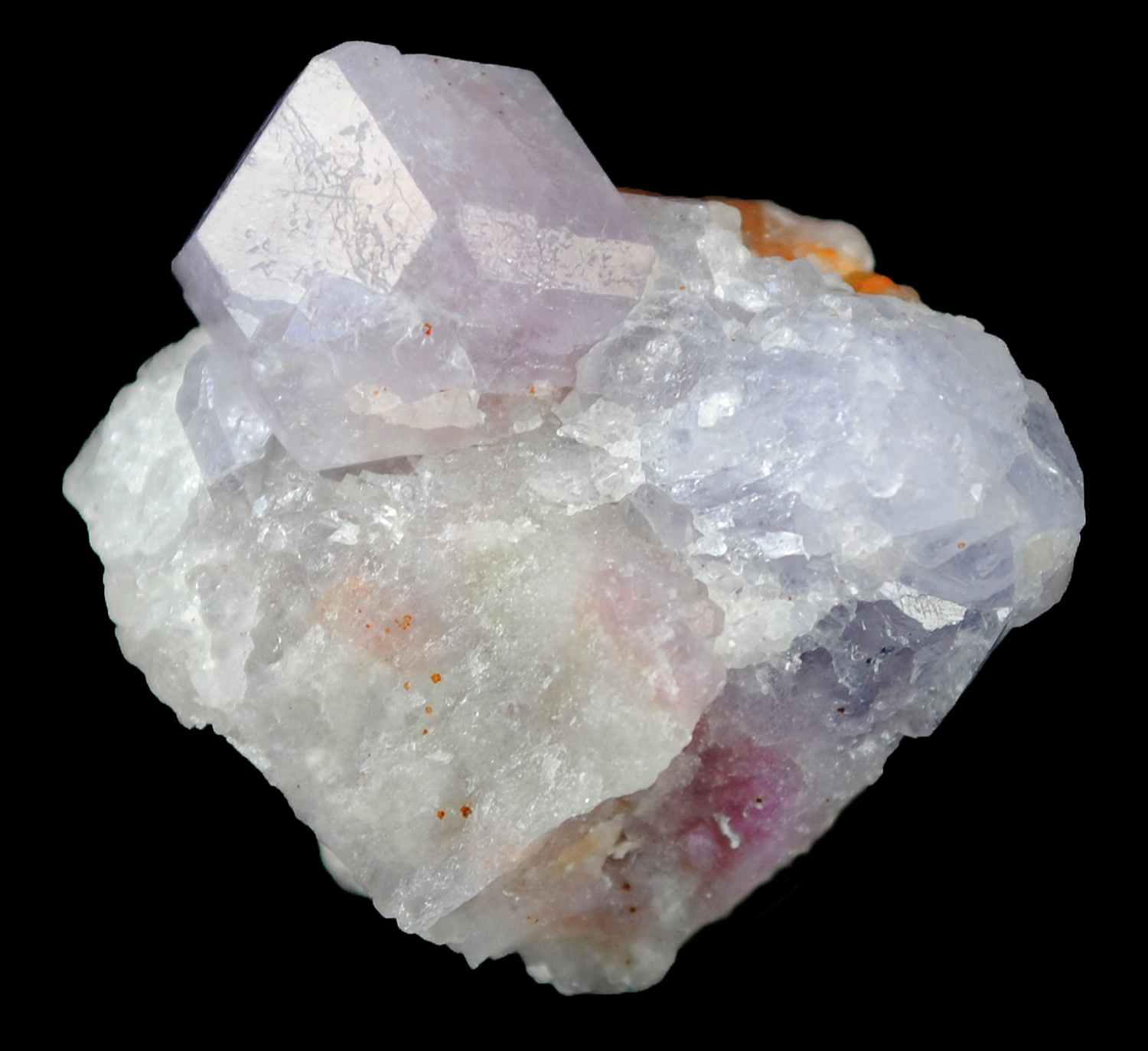 Sodalite Locality: Koksha Valley (Kokscha; Kokcha), Badakhshan (Badakshan; Badahsan) Province, Afghanistan (Locality at ) Size: thumbnail, 2.8 x 2.1 x 1.3 cm Hackmanite (variety of Sodalite) (fluor) A remarkable, sharp, isolated Hackmanite (Sodalite) crystal, the quality of which I have not often seen. It is actually complete all around, nicely perched and exposed so the backside is revealed as well. The light lavender-colored crystal is 1.3 cm across, gemmy to translucent, very lustrous, and sharp. This well formed dodecahedron has beveled edges which add greatly to the interest, as does a lovely rose fluorescence. An excellent thumbnail example.